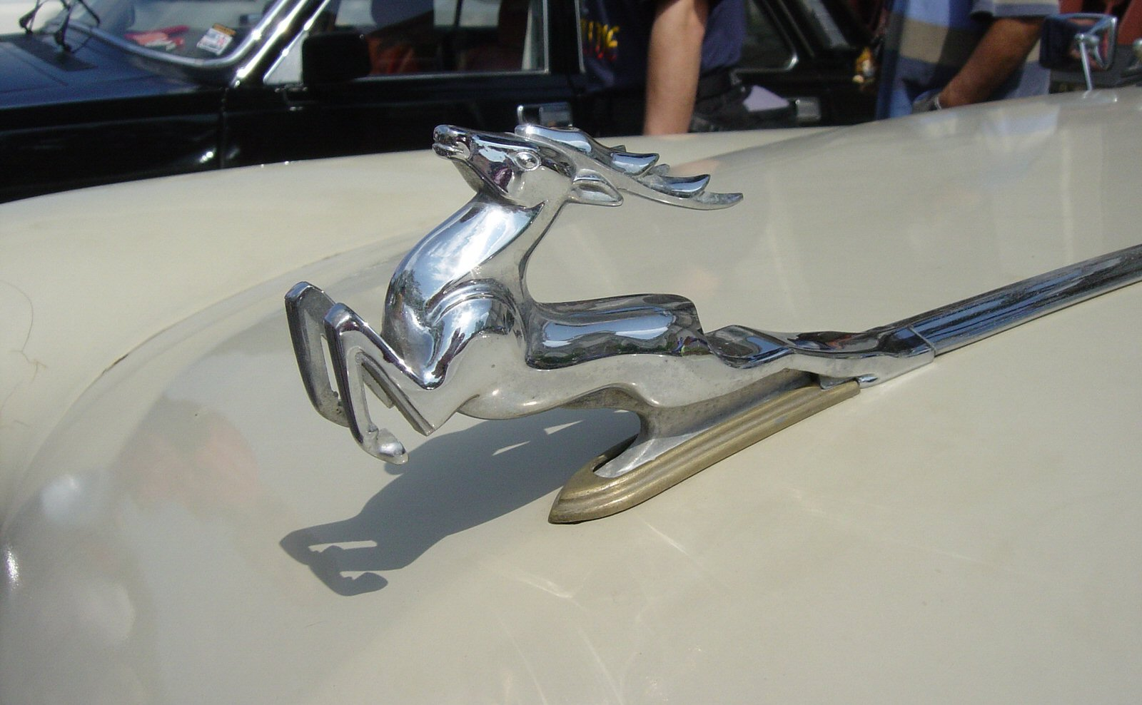 Volga GAZ-M-21 produced between 1957 and 1962 deer badge during the Szocialista Jáműipar Gyöngyszemei 2008.